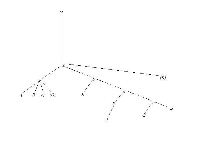 An illustration of a typical stemma codicum